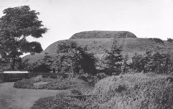 Moshiriya Chashi Site, Kushiro, Hokkaido; old postcard of c.1935